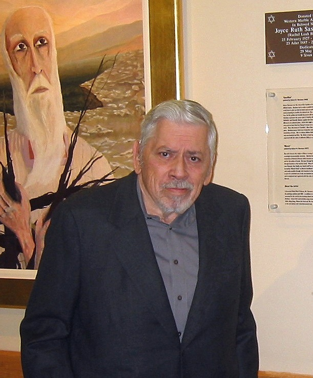 Robert B. Sherman at the Western Marble Arch Synagogue in London, England dedicating his painting "Sacrifice" (phot taken: 2004)